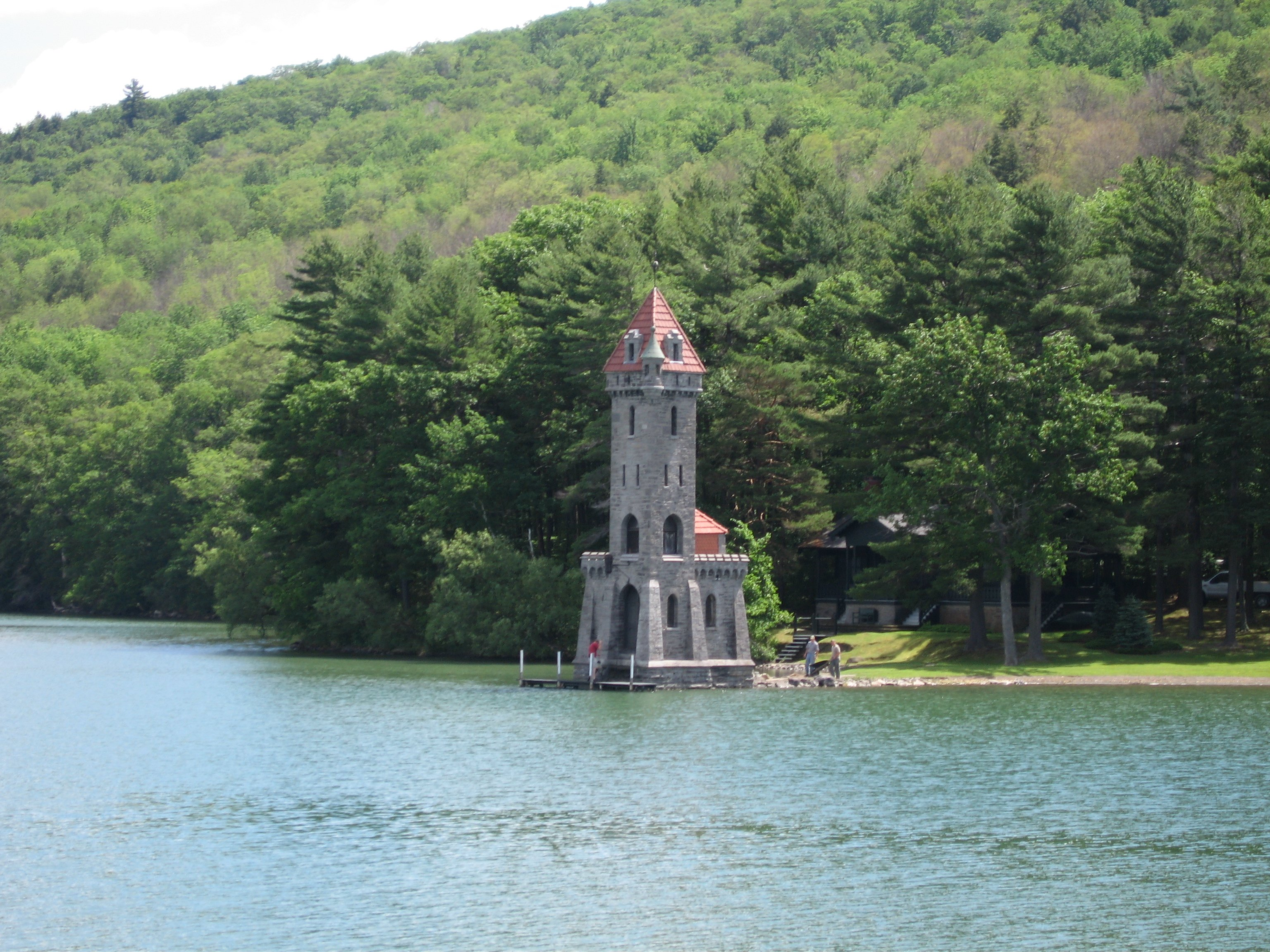 A tower, built in 1876, on the east shore of Otsego Lake, New York. Taken from a tour boat out of Cooperstown, New York. Photo taken in 2006.